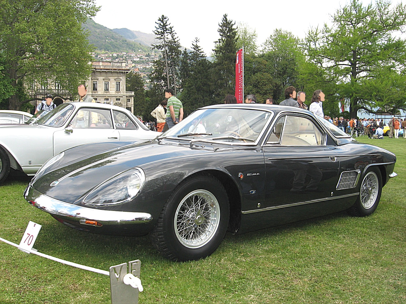 1963 A.T.S. 2500 GT at the 2008 "Villa d'Este" concours d'elegance in Cernobbio (CO), Italy.